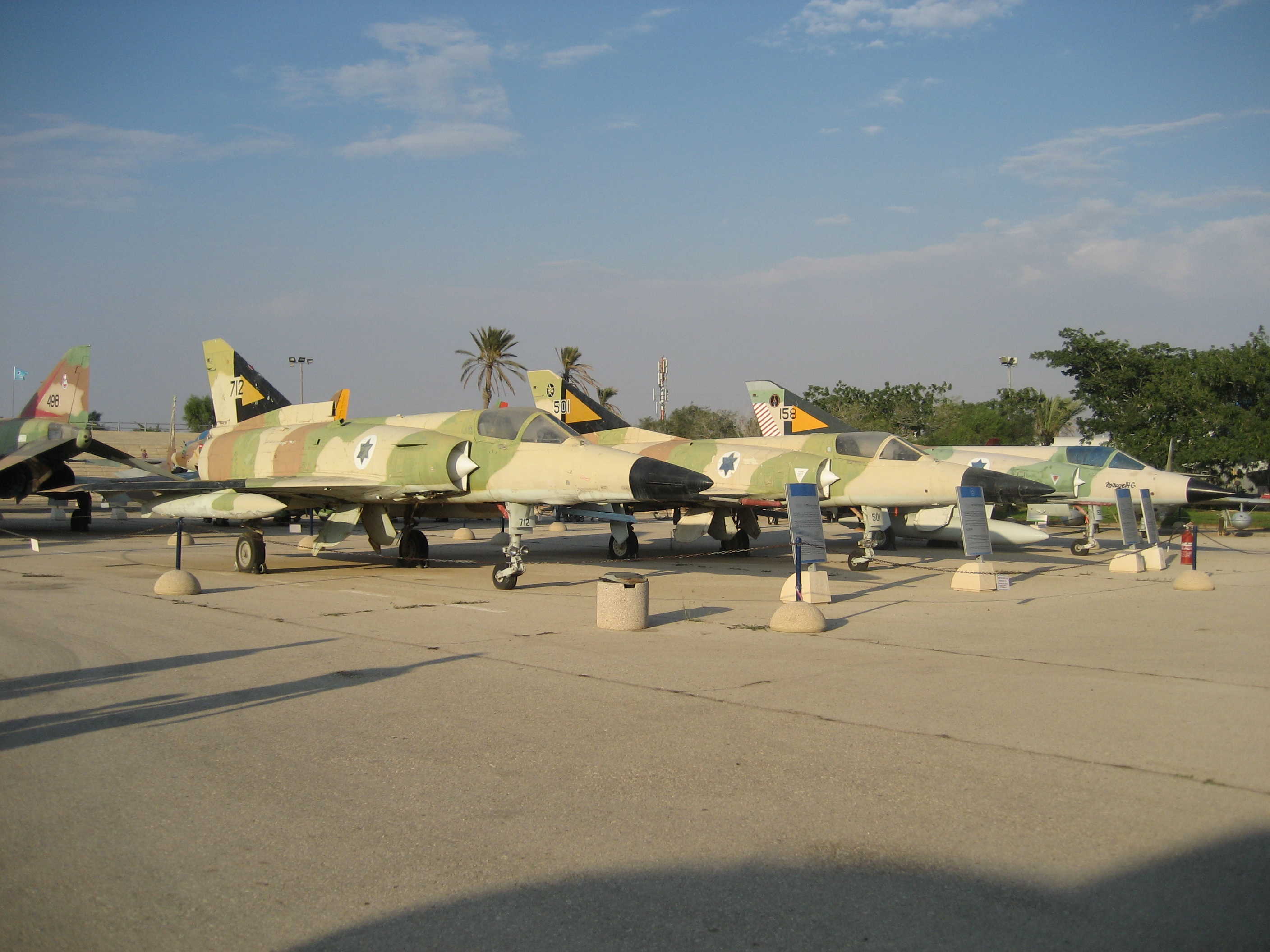 Part of the so called Mirage row at the Israeli Air Force Museum, Hatzerim. The aircrafts are, left to right, Kfir C.1 '712', Nesher S '501' and Mirage IIICJ '158'. The true identity of the last airframe is supposedly '111', the current paint scheme being that of the highest scoring individual aircraft in Israeli service.